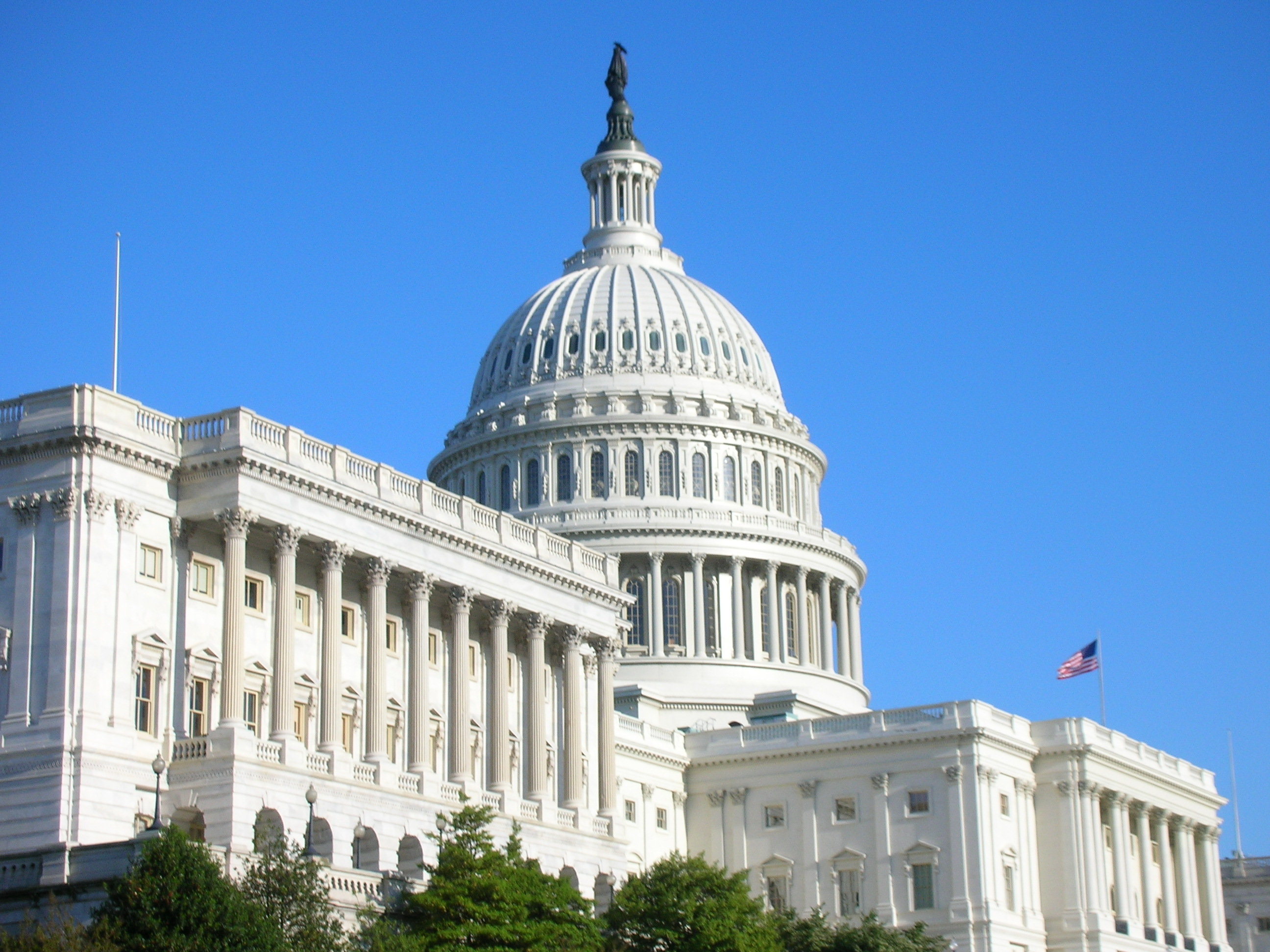 United States Capitol Dome.